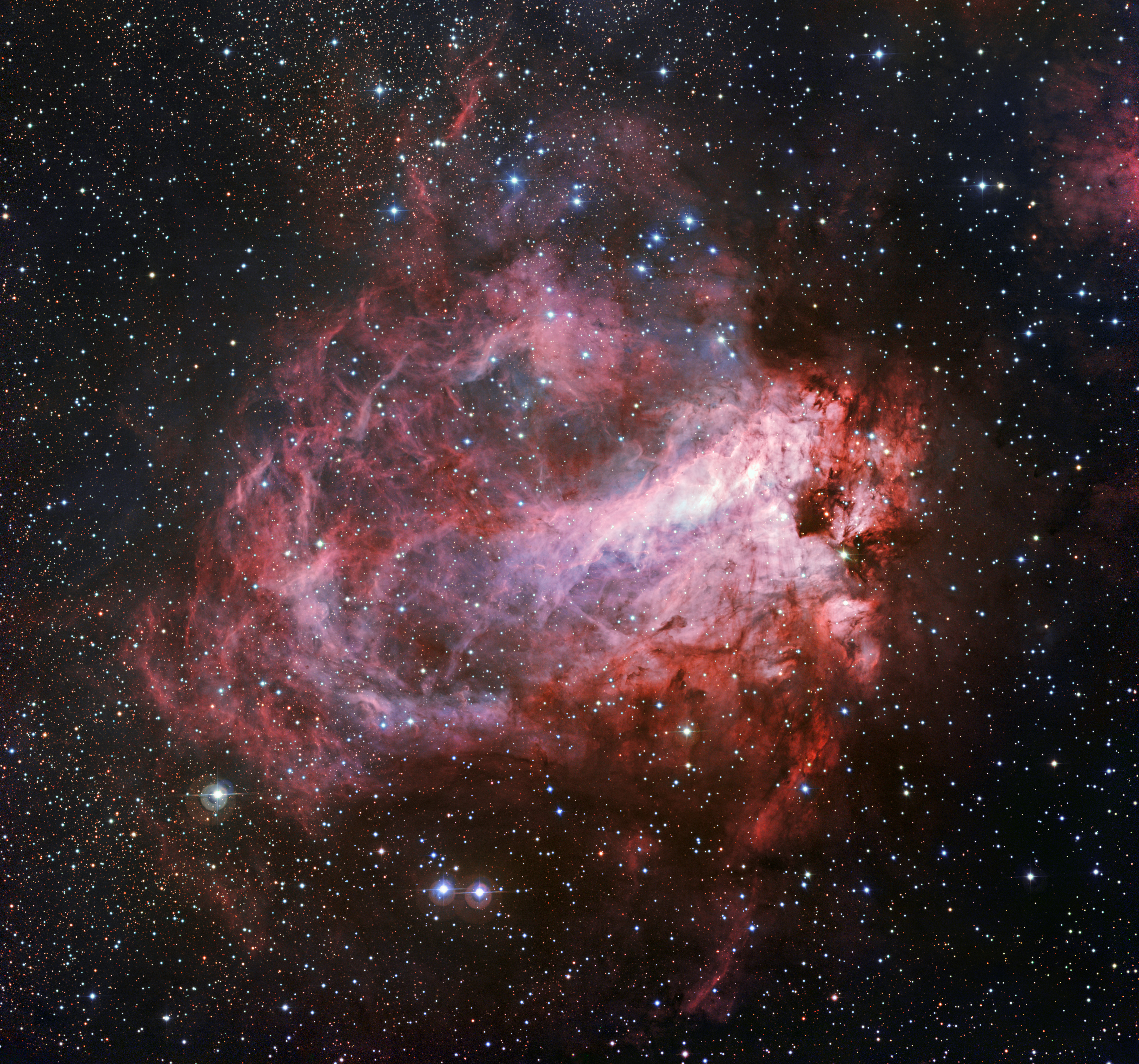 This image of the rose-coloured star forming region Messier 17 was captured by the Wide Field Imager on the MPG/ESO 2.2-metre telescope at ESO’s La Silla Observatory in Chile. It is one of the sharpest images showing the entire nebula and not only reveals its full size but also retains fine detail throughout the cosmic landscape of gas clouds, dust and newborn stars.